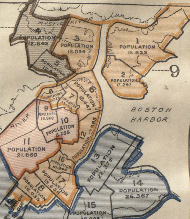 Detail of: Outline map of Massachusetts, showing population according to the United States census of 1890, and congressional districts